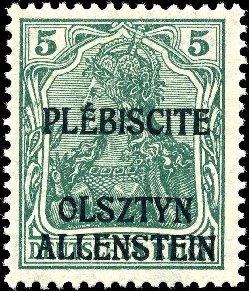 East Prussian plebiscite. Allenstein plebiscite 5pf overprint stamp of 1920